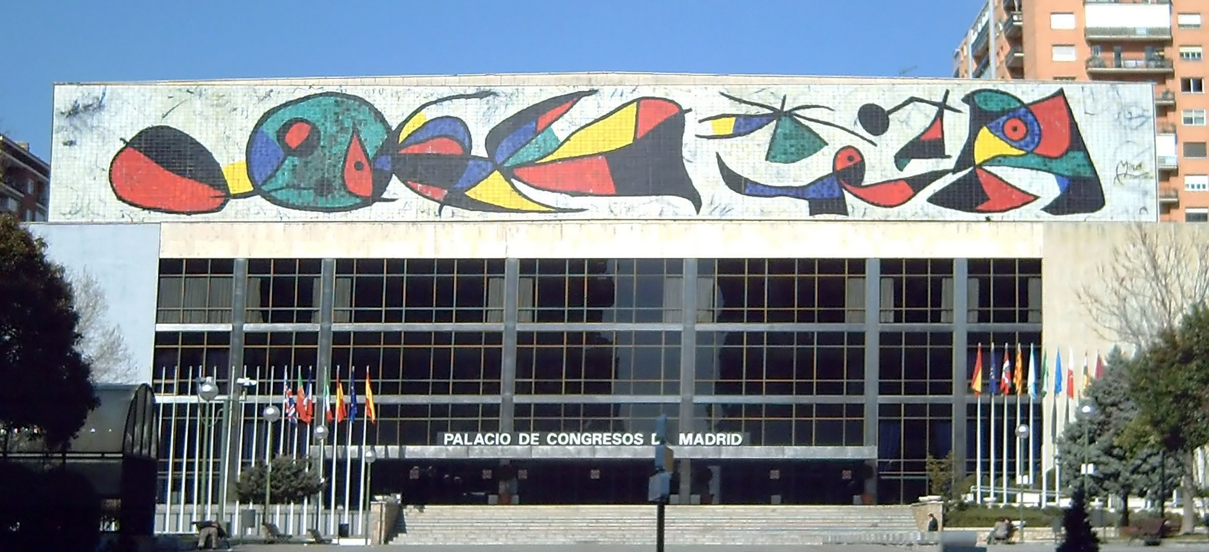 Palacio de Congresos y Exposiciones. Convention centre in Madrid (Spain). Projected by architect Pablo Pintado Riba and built from 1965 to 1970. Mural was made in 1980 by Joan Miró (1893–1983).